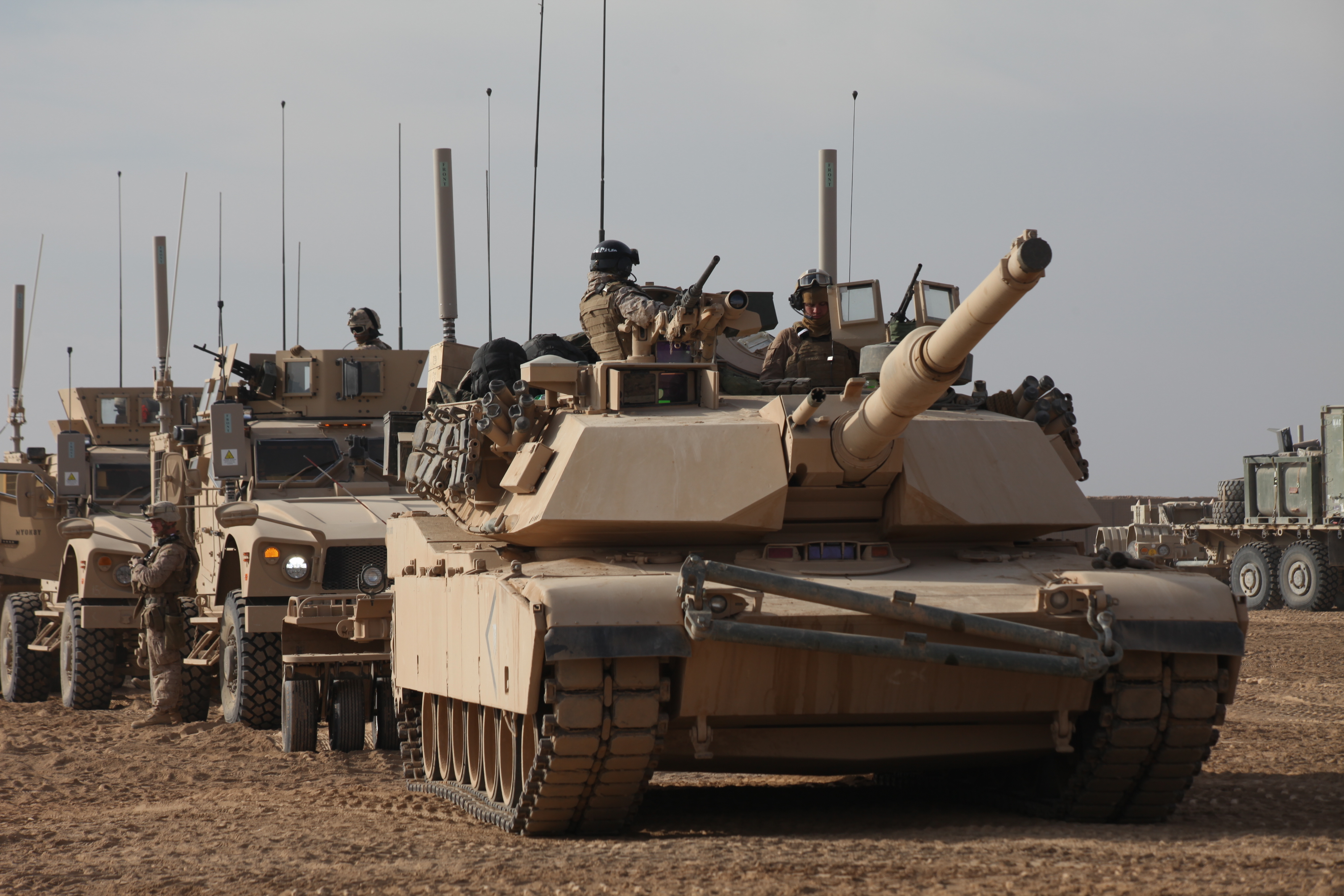 A U.S. Marine Corps M1A1 Abrams Tank with 2nd Tank Platoon, Delta Company, 1st Tank Battalion, attached to Battalion Landing Team 3/8, 26th Marine Expeditionary Unit, Regimental Combat Team 2, prepares to leave Combat Outpost Ouellette, Helmand province, Afghanistan, Jan. 30. Delta Company, 1st Tank Battalion, was the first U.S. tank company to deploy to Afghanistan Elements of the 26th Marine Expeditionary Unit deployed to Afghanistan to provide regional security in Helmand province in support of the International Security Assistance Force.